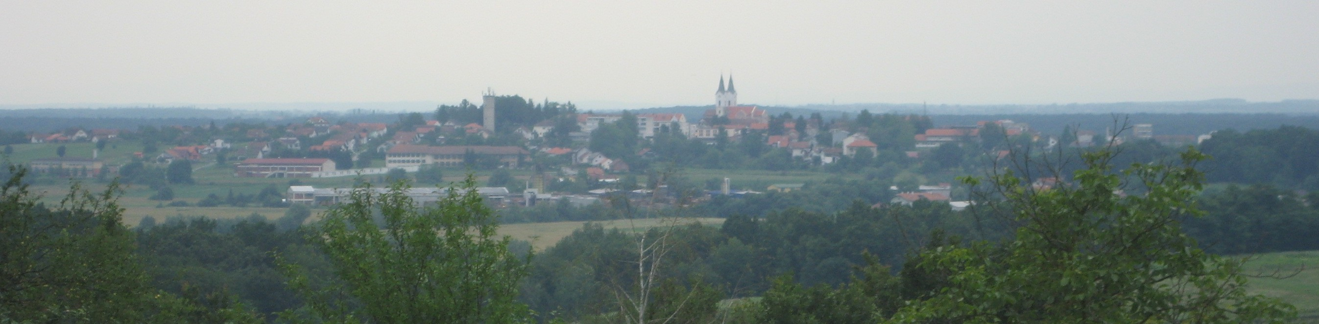 Cazma, Croatia